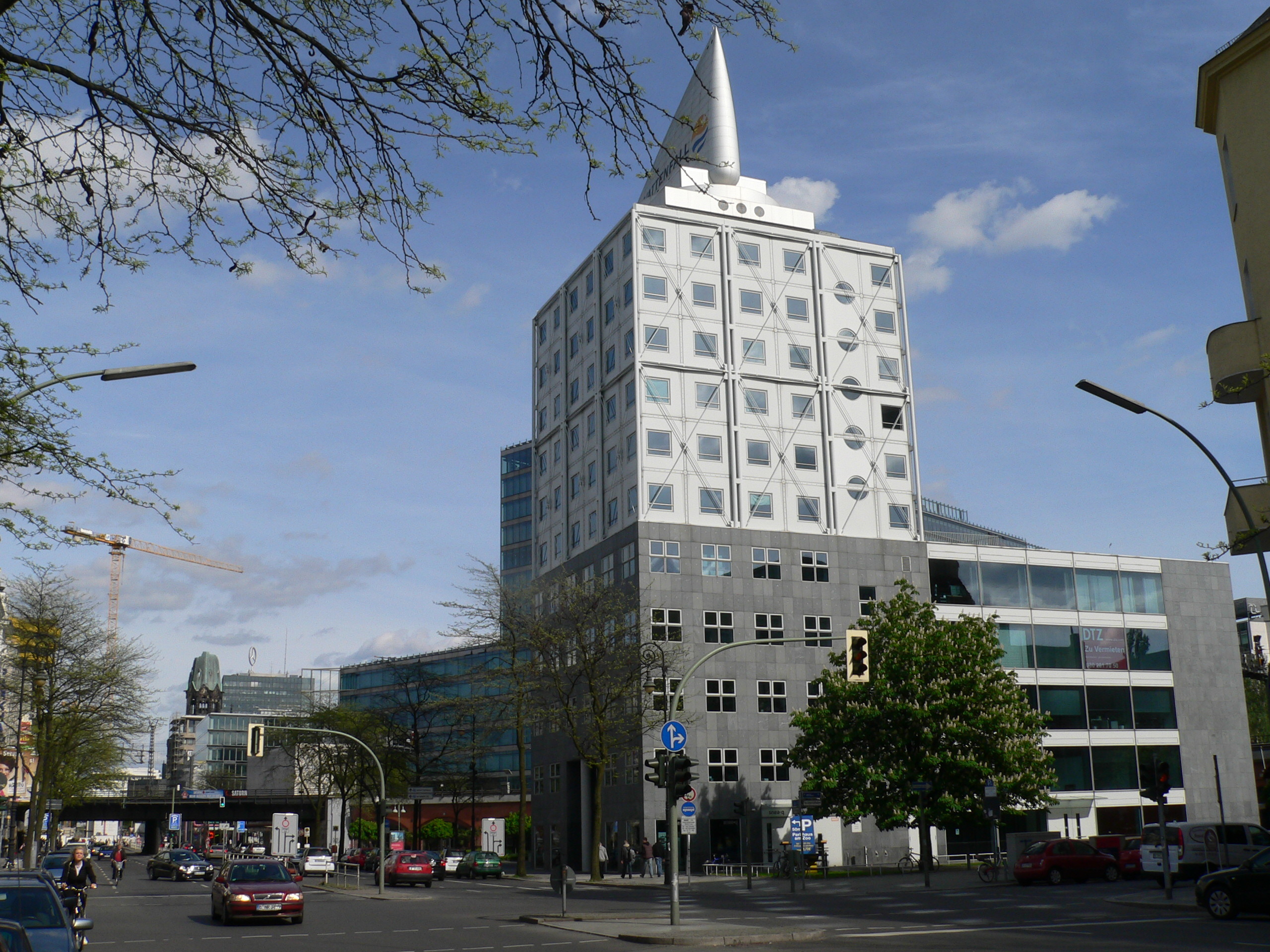 Berlin-Charlottenburg, High-rise building at "Kantdreieck"